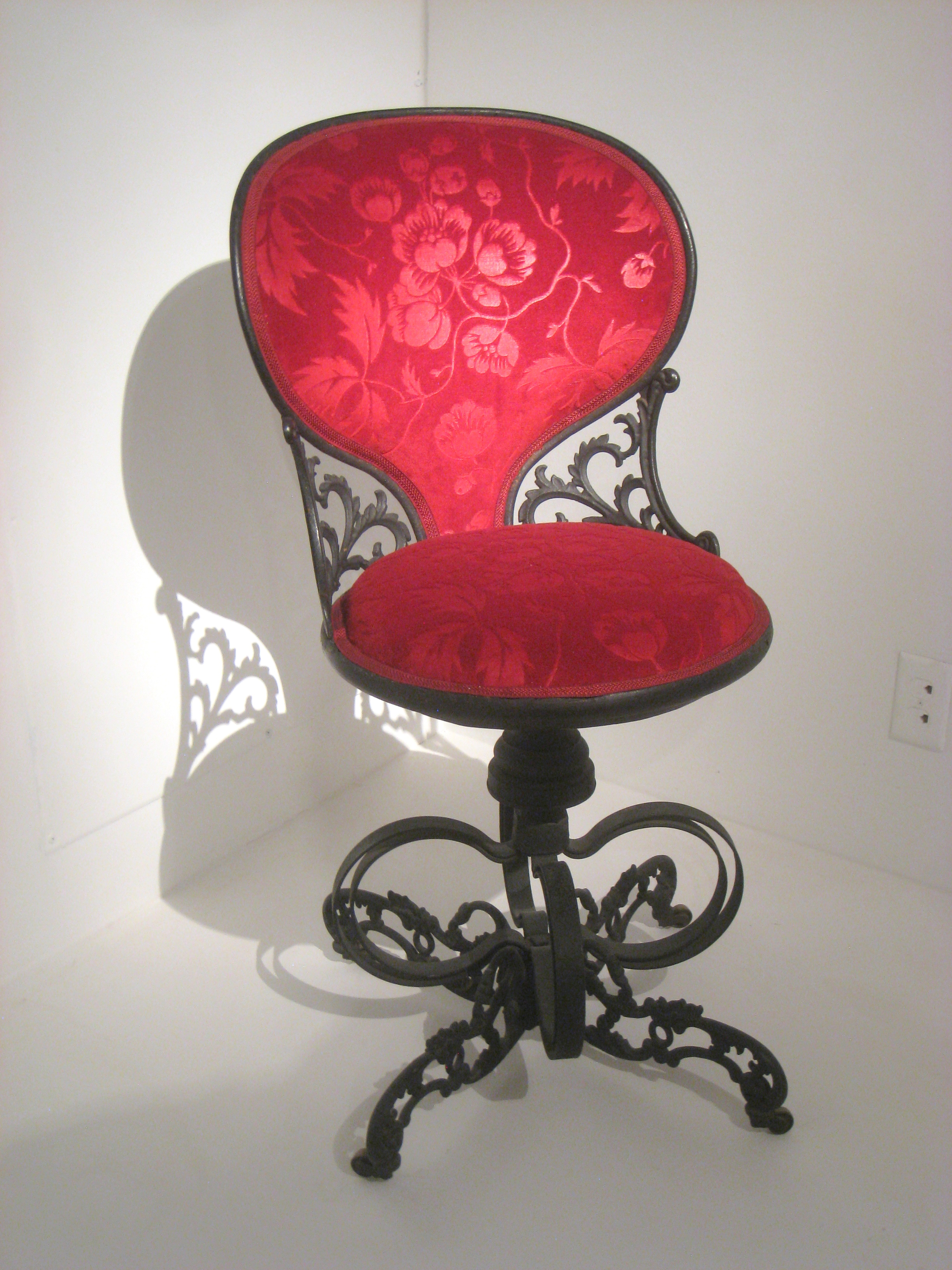 Centripetal Spring Chair, circa 1849, designed by Thomas E. Warren, manufactured by the American Chair Company, Troy, New York. Exhibited in the 1851 Great Exhibition of the Works of Industry of all Nations, in the Crystal Palace, London. Exhibit in the Wolfsonian-Florida International University Museum, 1001 Washington Avenue, Miami Beach, Florida, USA. Photography was permitted in this area of the museum without restrictions.